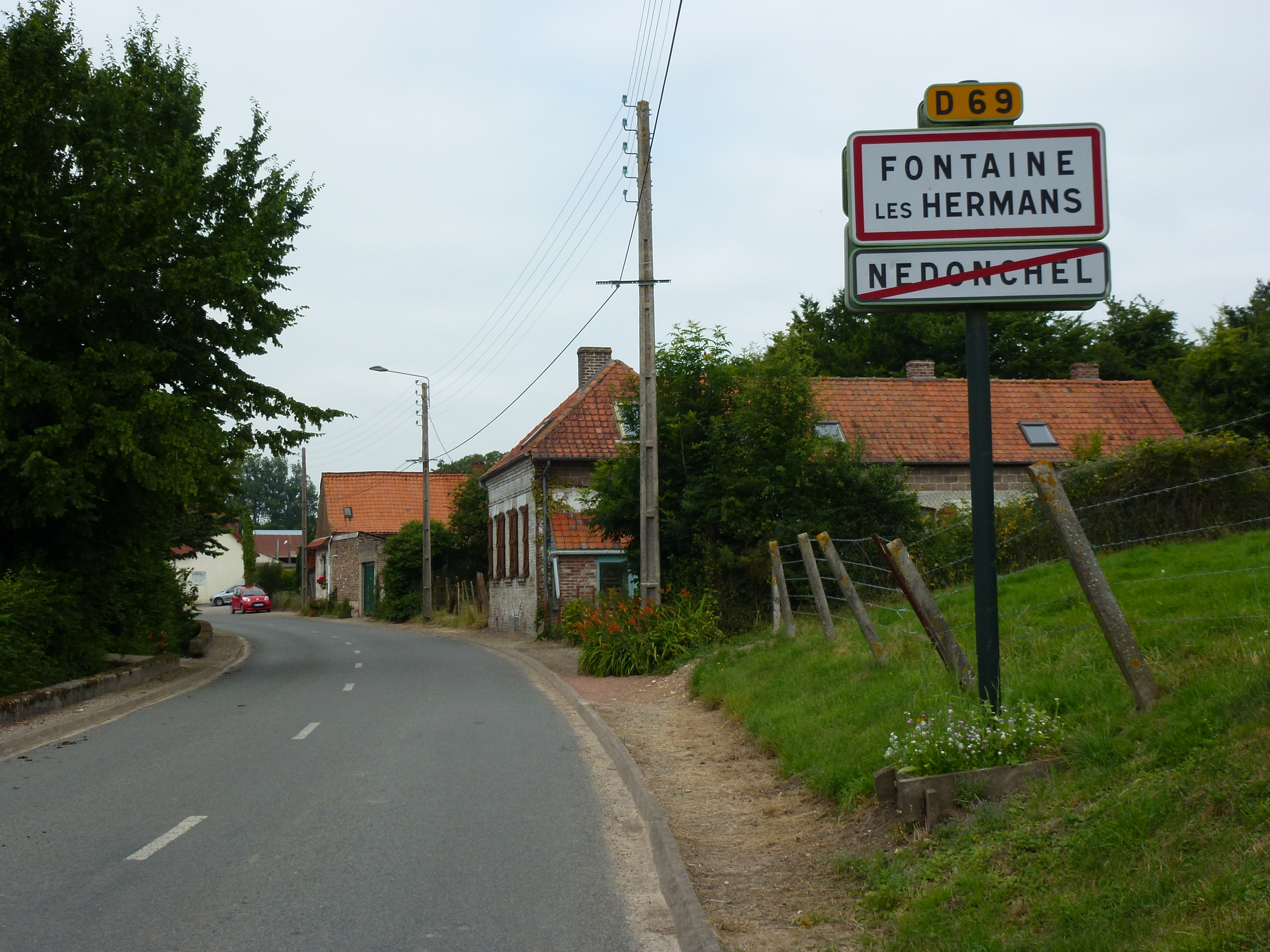 Fontaine-lès-Hermans (Pas-de-Calais, Fr) city limit sign